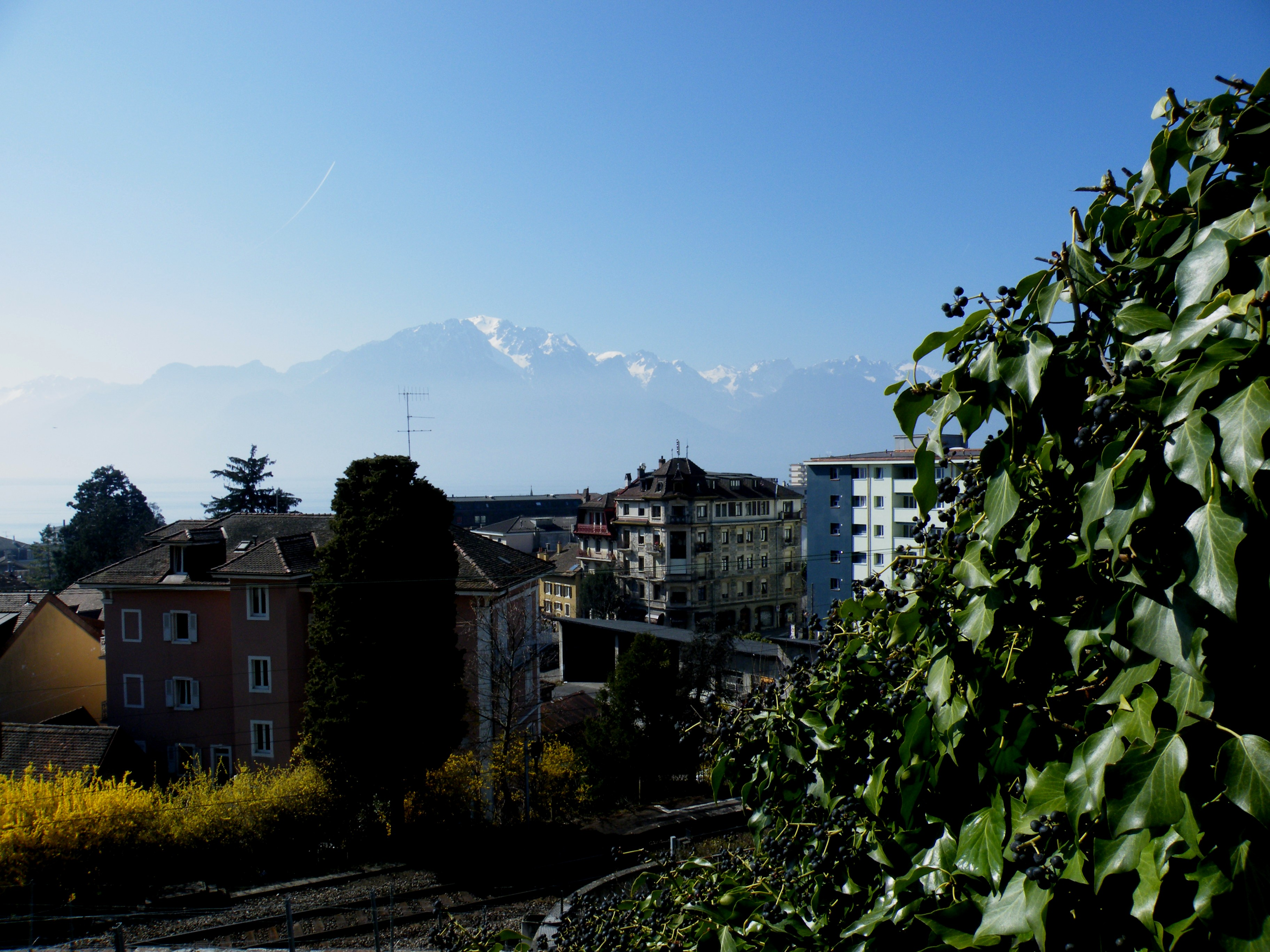 Clarens town centre and mountains, Switzerland